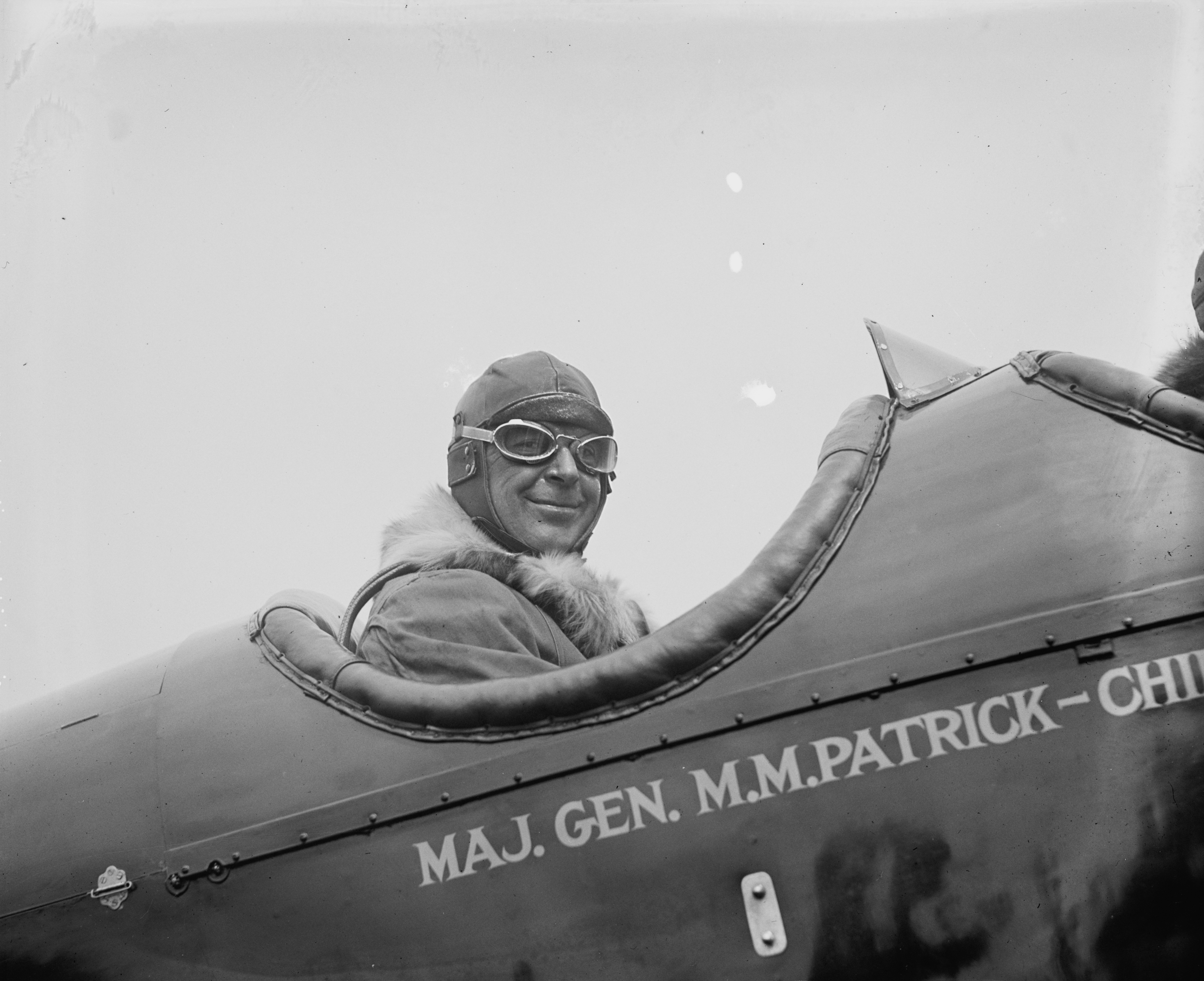 Dwight Davis in aero., 9/18/23